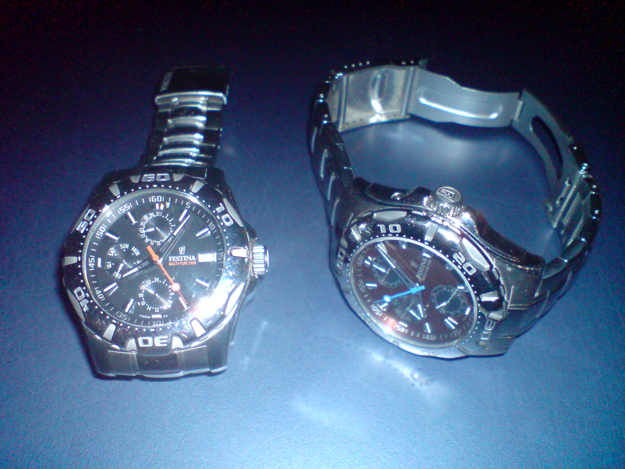 My watches